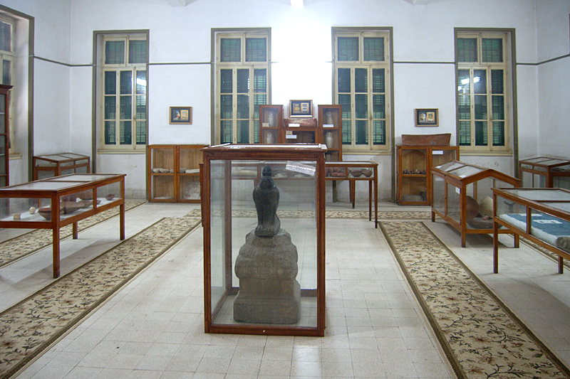 Inside the museum of the el-Salam college, Asyut, Egypt